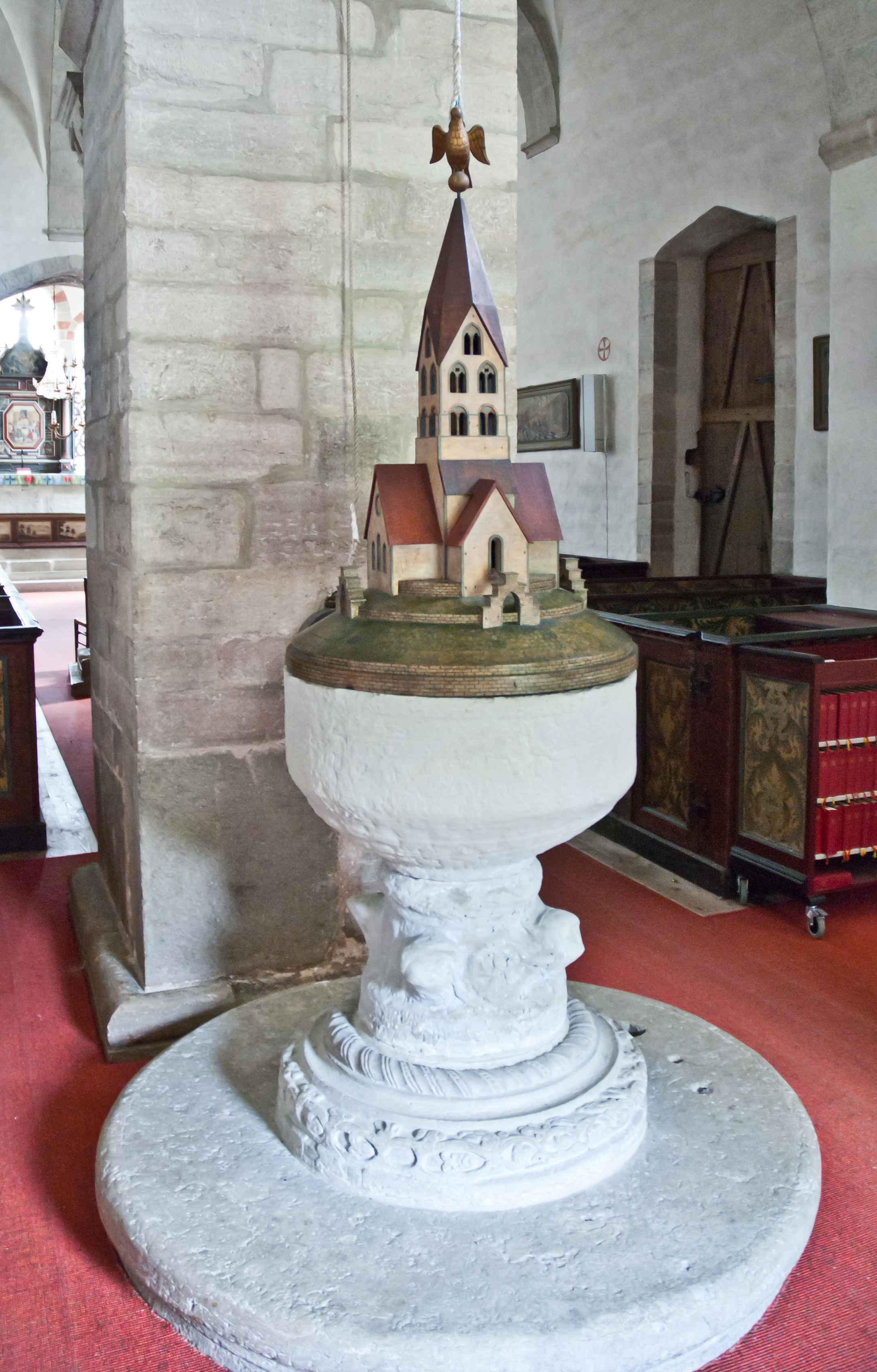 Baptismal font of Tingstäde Church on Gotland.